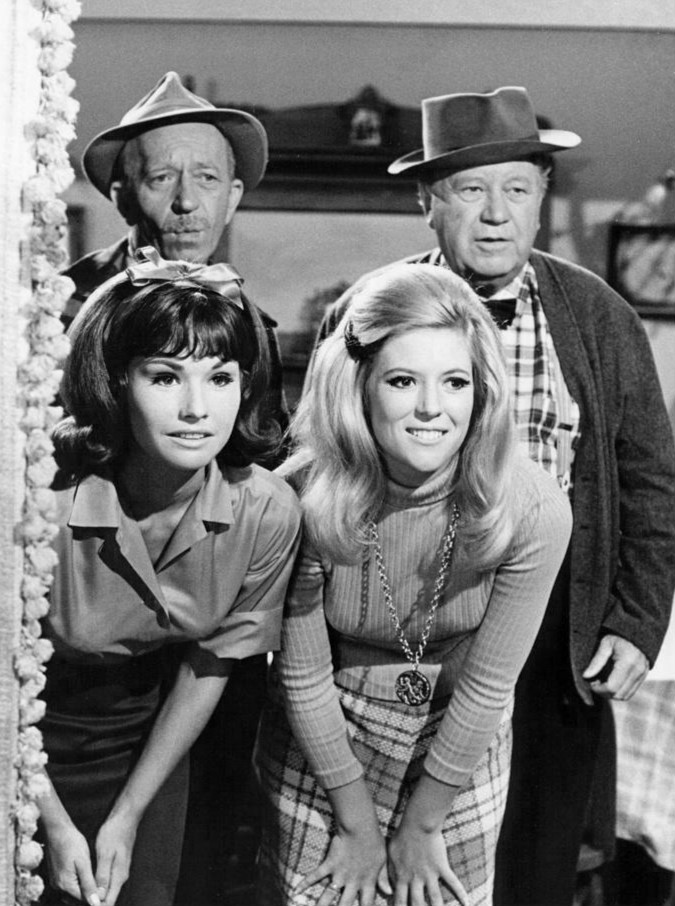 Cast photo from the television program Petticoat Junction. Back, L-R: Frank Cady (Sam Drucker), Edgar Buchanan (Uncle Joe). Front - Lori Saunders (Bobbie Jo), Meredith MacRae (Billie Jo).